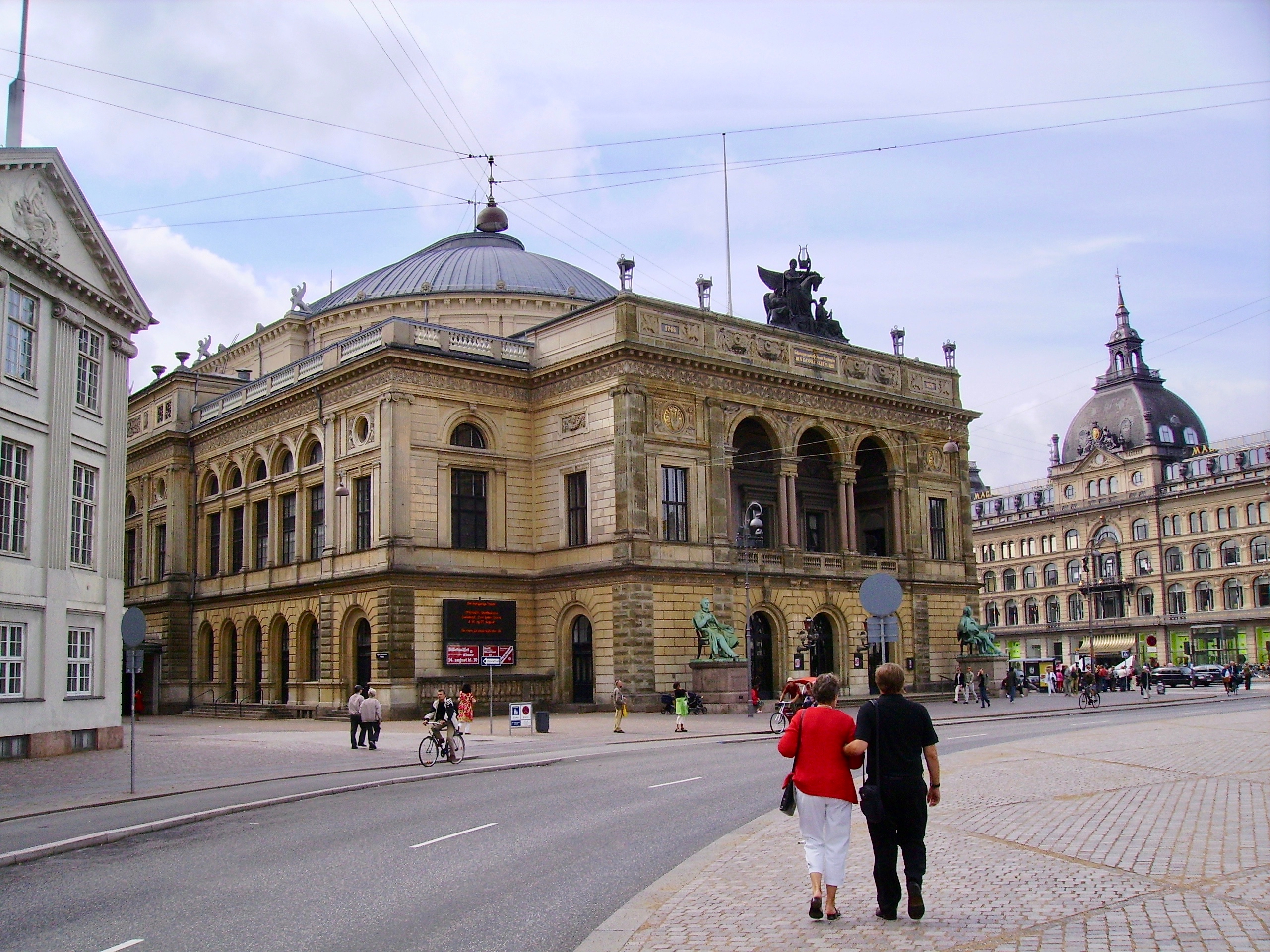 Royal Danish Theatre.